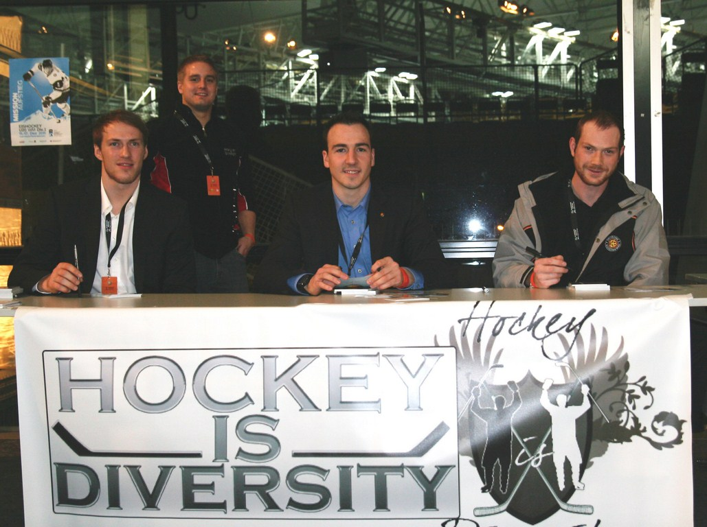 German National Team player Benedikt Schopper, Simon Danner and Danny aus den Birken sign autographs in support of Hockey is Diversity